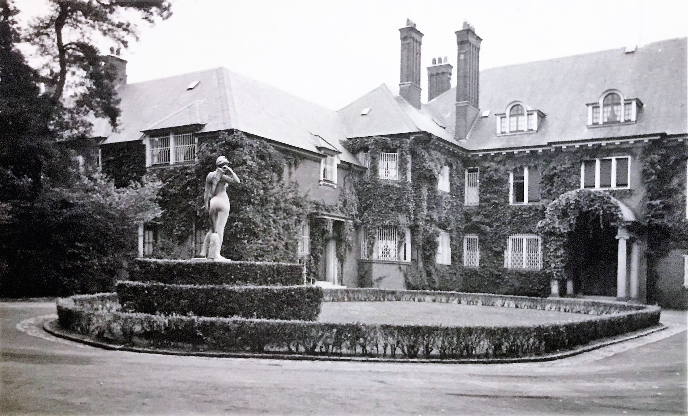 Villa Fritz Thyssen Muelheim Entrance Driveway Foto KuMuMue-Kulturmuseum Muelheim